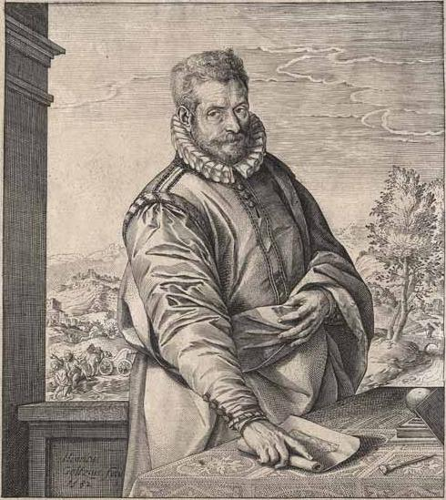 Portrait of Philips Galle